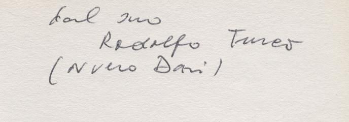 Signature of the writer Rodolfo Doni which also uses his original surname (Turco)